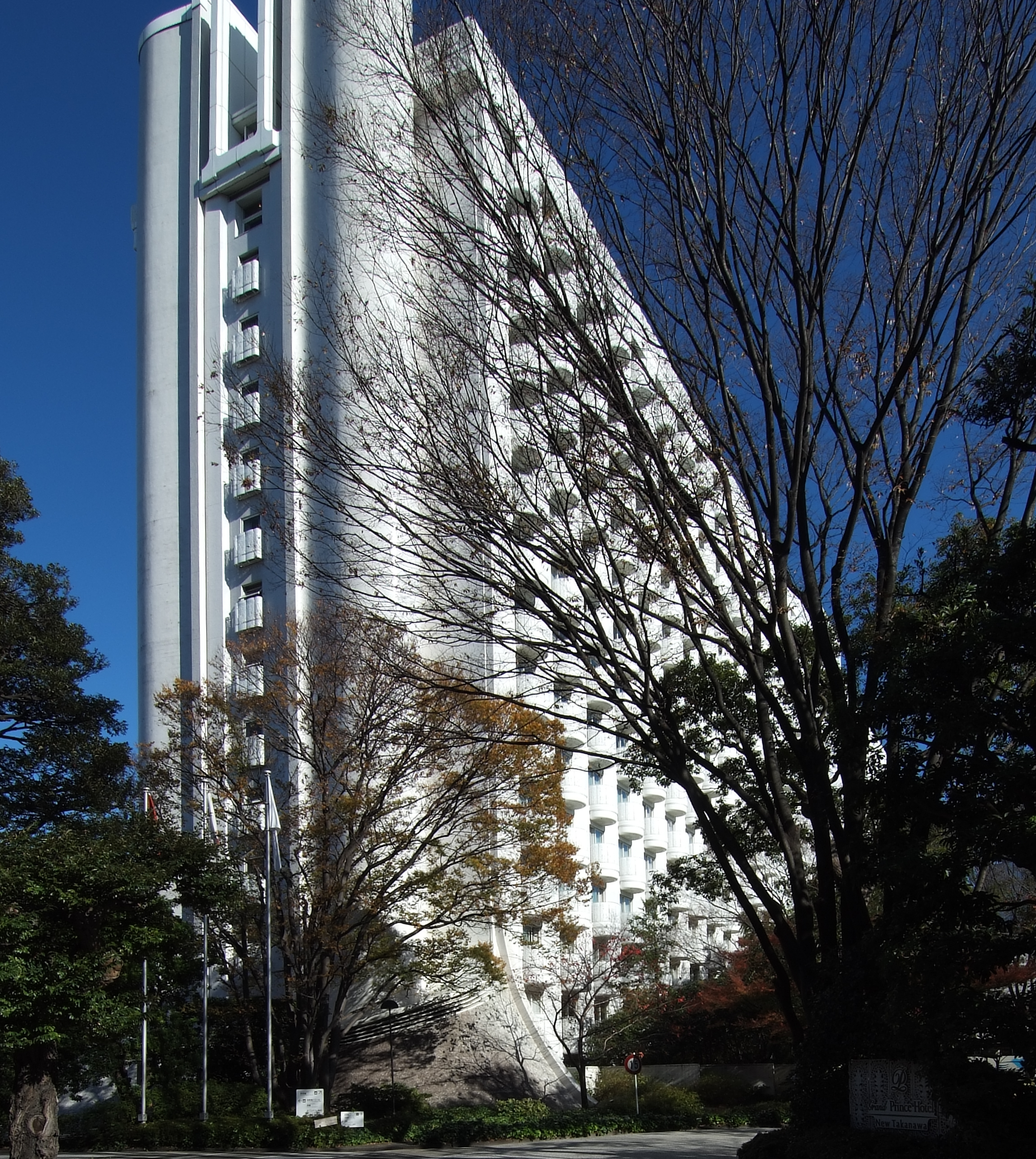 Grand Prince Hotel New Takanaya, at Minato-ku Tokyo Japan, design by Togo Murano in 1982.